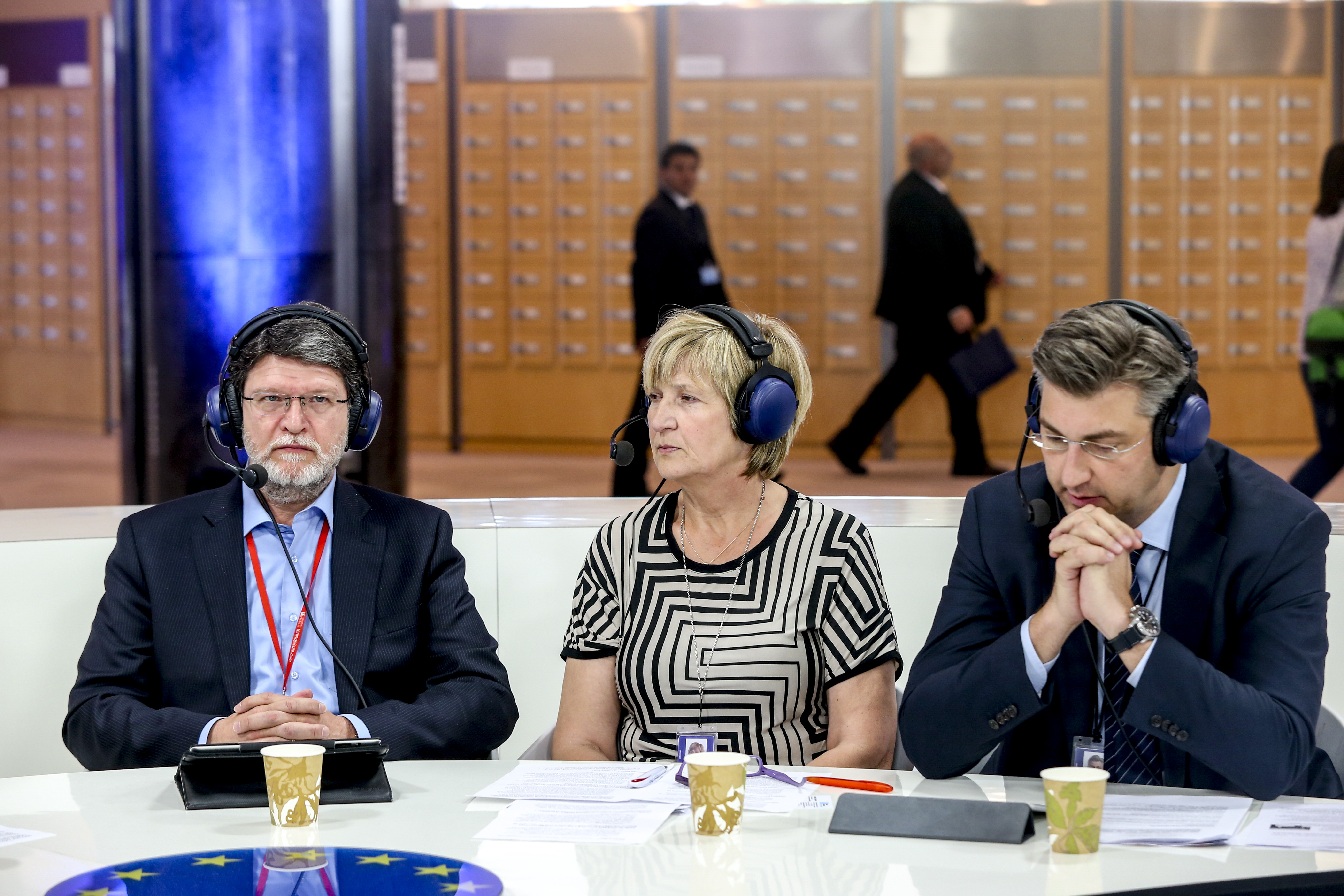 The quick and the dead. Europe’s migration crisis – the Euranet Plus radio network, in partnership with HRT Radio (Croatia), hosted a live debate from the European Parliament discussing migrations policy. What can the European Union really do? Euranet Plus and HRT Croatia debated the crisis in a bilingual debate moderated by journalist Barbara Peranić of HRT Radio (in Croatian) and Brian Maguire of the Euranet Plus News Agency in Brussels (in English). The debate also featured students of the Euranet Plus campus radio network from Croatia (Radio Student) and Spain (Universidade de Vigo). Get all the details about the guests, photos and video recording at